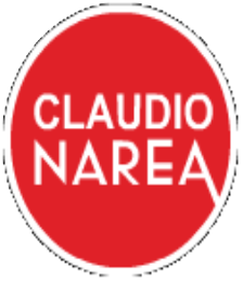 Claudio Narea logo 2007.